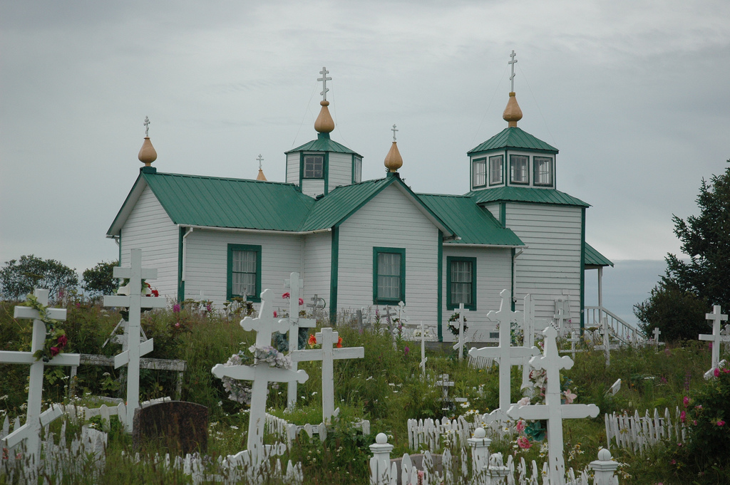 One of many Russian Orthodox churches in Alaska. Visible are several small onion domes atop the roof of the church, which is also adorned with Orthodox crosses. In the foreground is a cemetery containing many traditional Lorraine or Copic crosses marking grave sites.